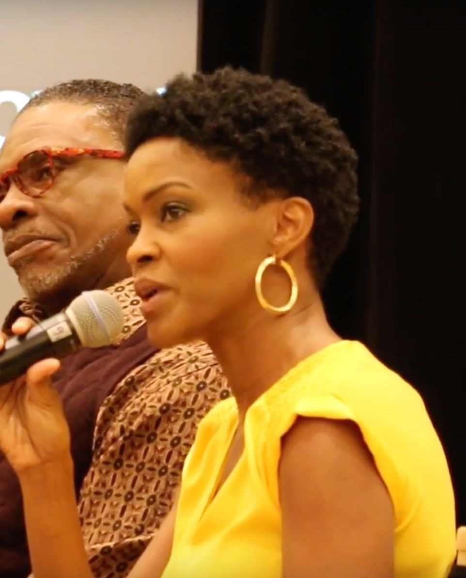 Greenleaf interview